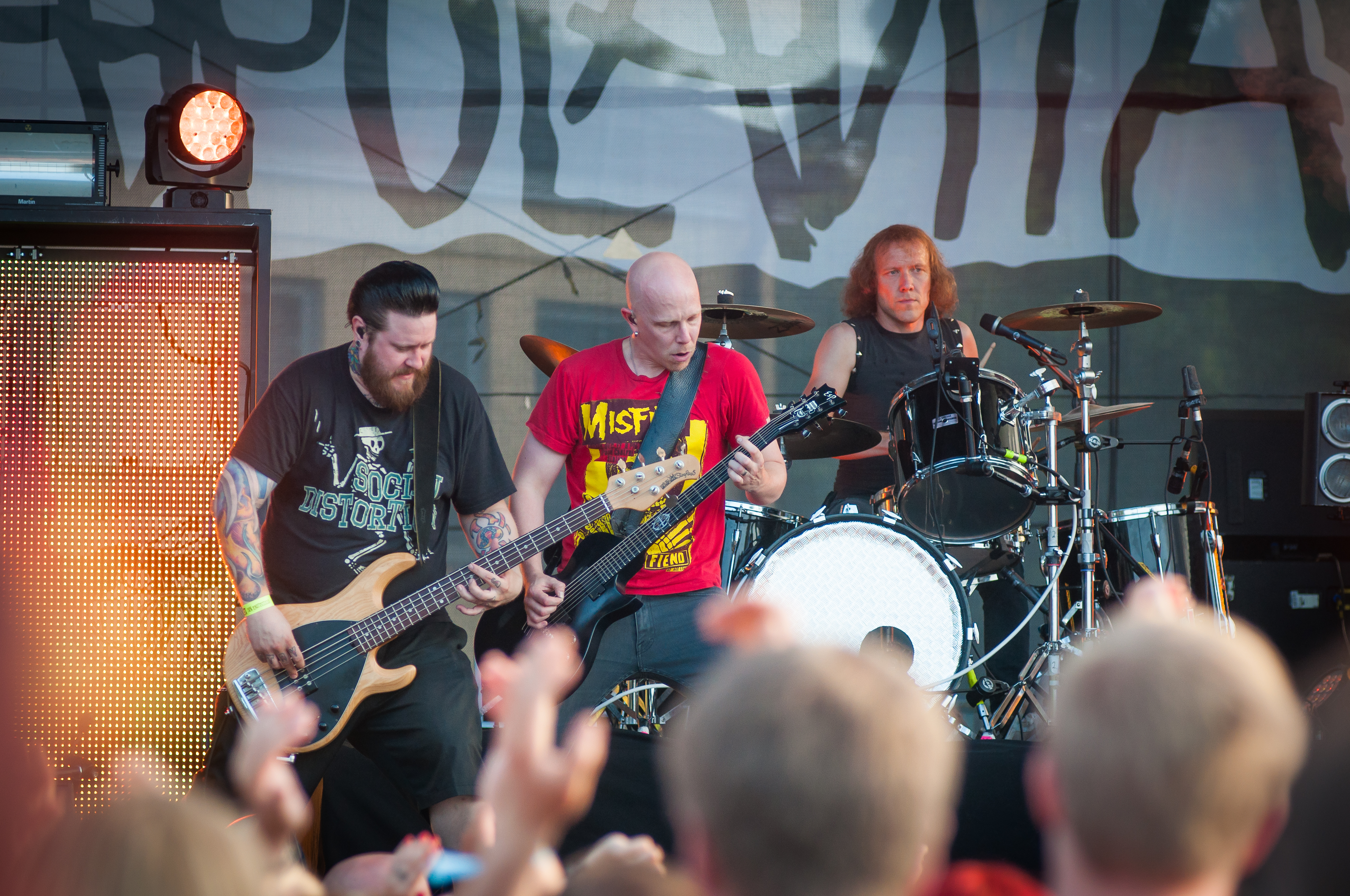 Finnish punk rock band Apulanta performing at the 2014 Rakuuna Rock festival in Lappeenranta, Finland.